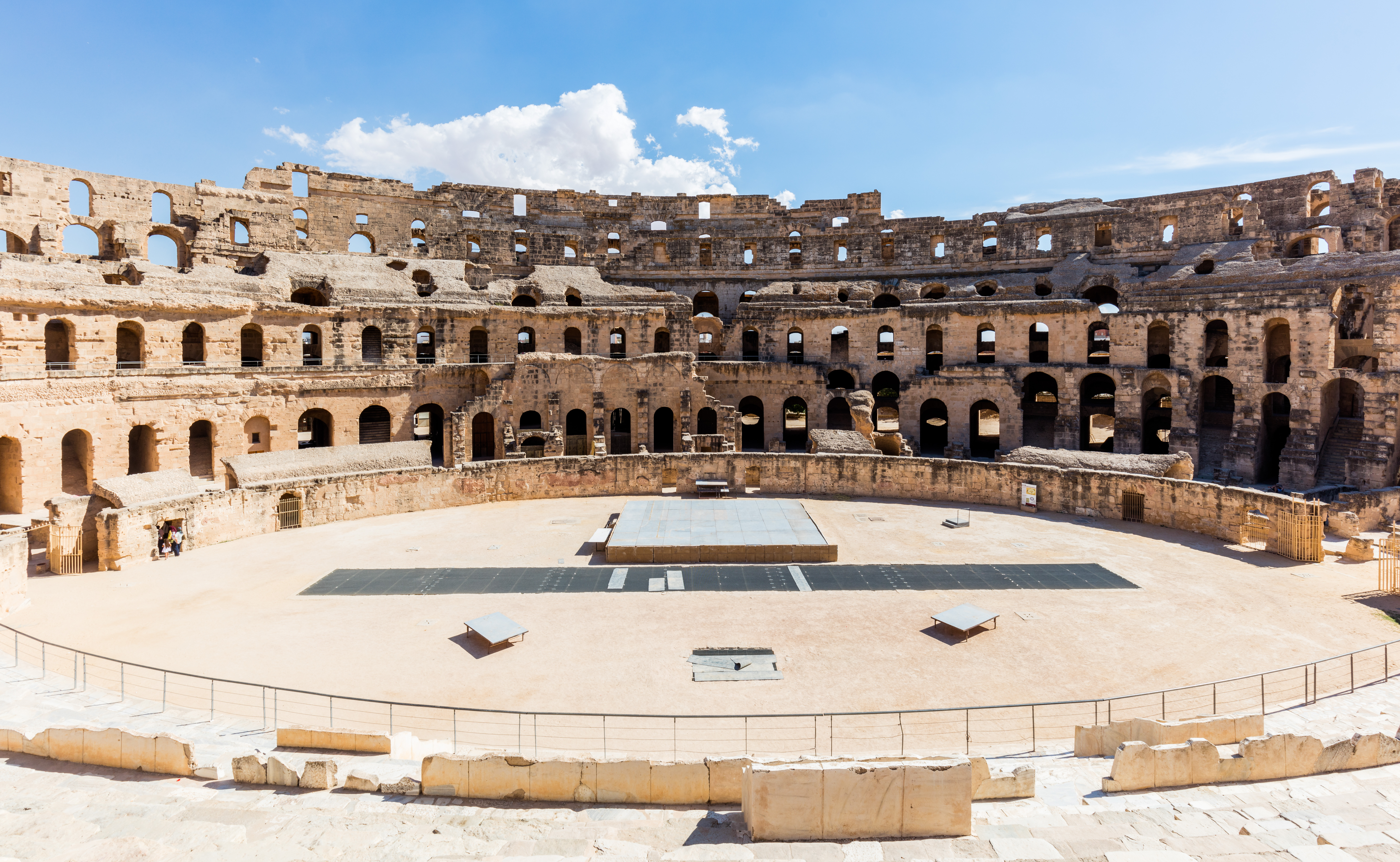 Amphitheatre of El Jem, Tunisia